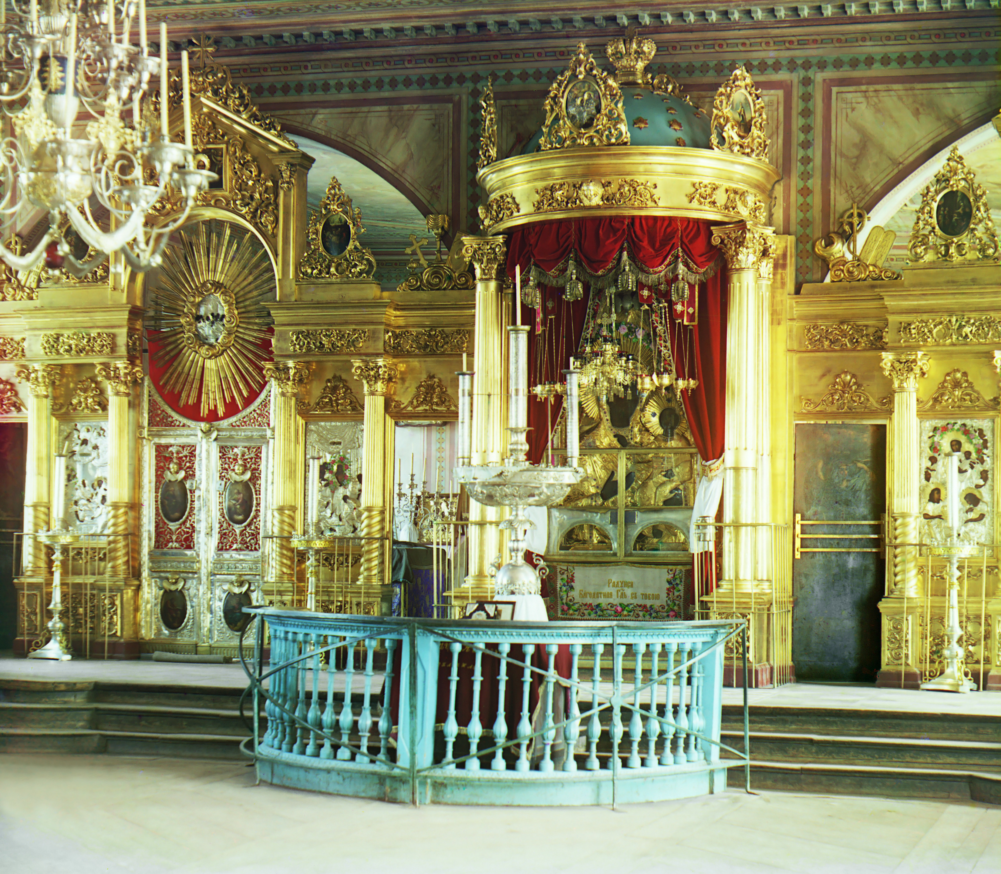 Miraculous icon of Mother of God-Odigitria in the Church of the Assumption of the Virgin. (Smolensk).